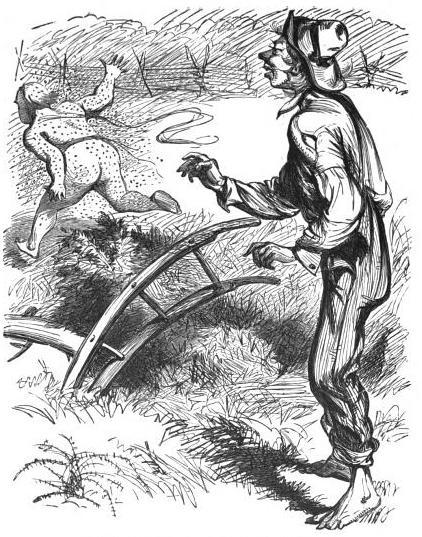 Illustration accompanying George Washington Harris's short story, "Sut Lovingood's Daddy, Acting Horse." In the illustration, Sut Lovingood (right) watches as his father runs away from what he perceived was a swarm of hornets.